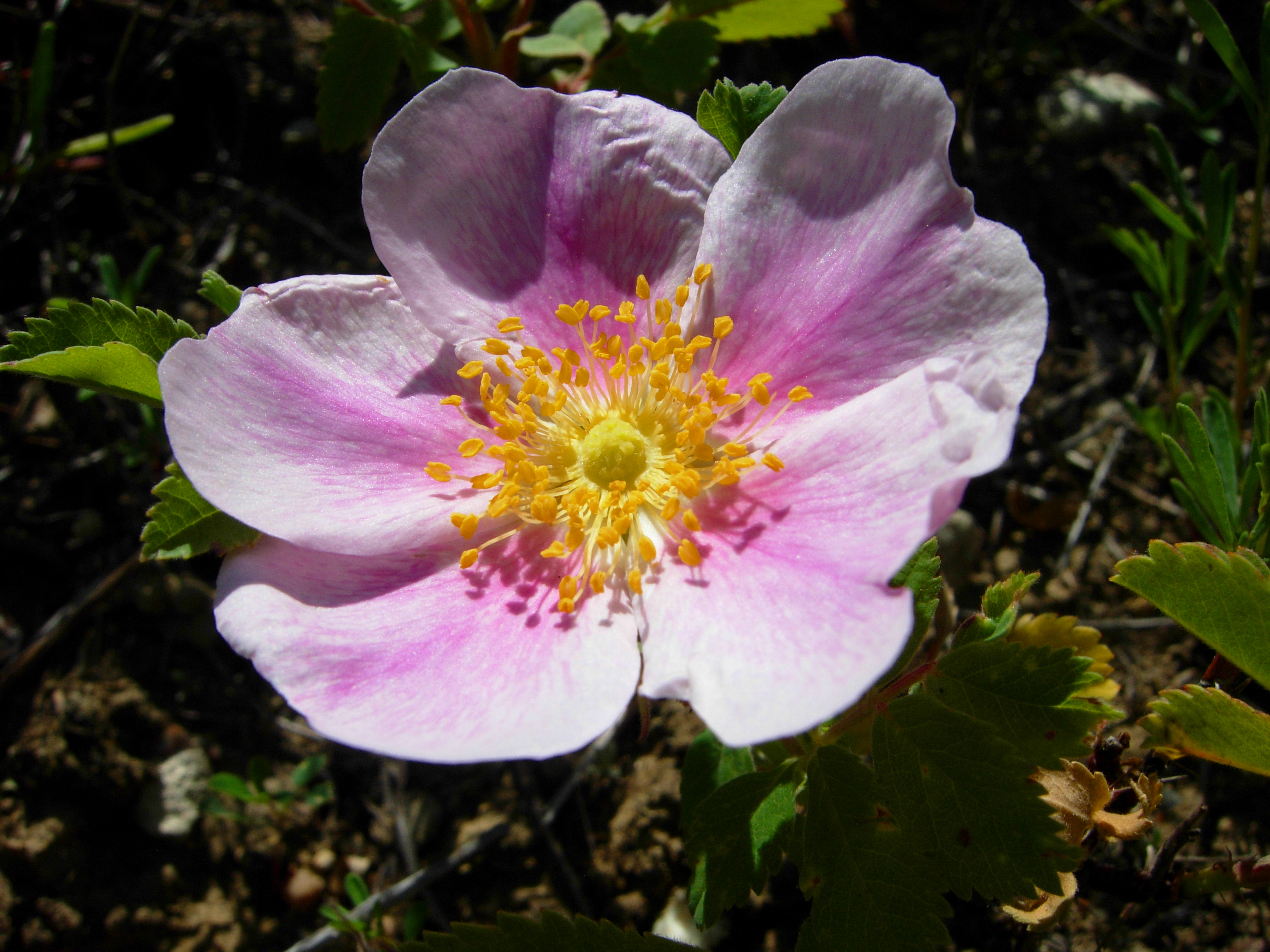 Wild prairie rose on Upper Souris National Wildlife Refuge in North Dakota. The wild prairie rose is the state flower of North Dakota. Credit: Jennifer Jewett / USFWS